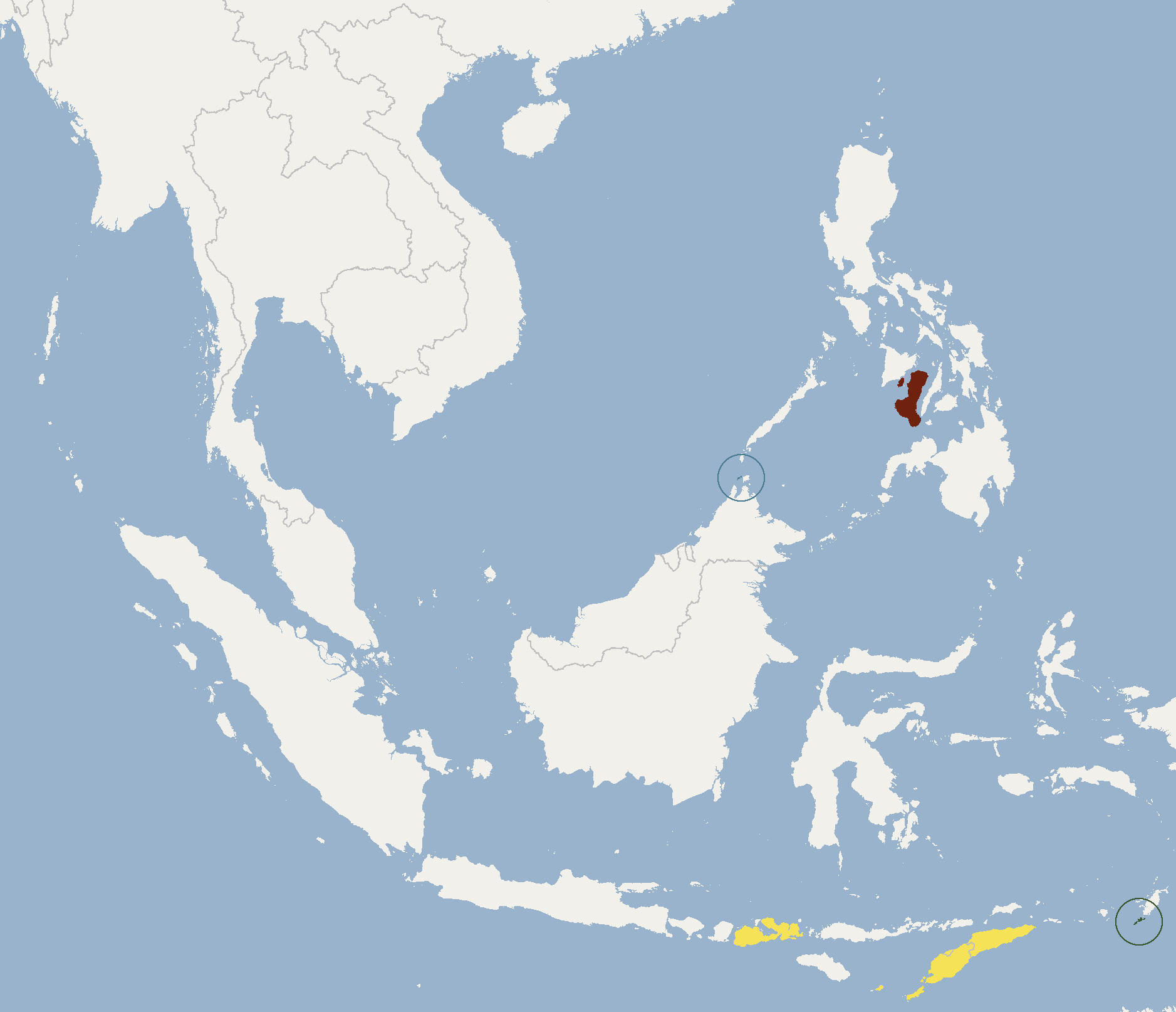 According to IUCN Redlist